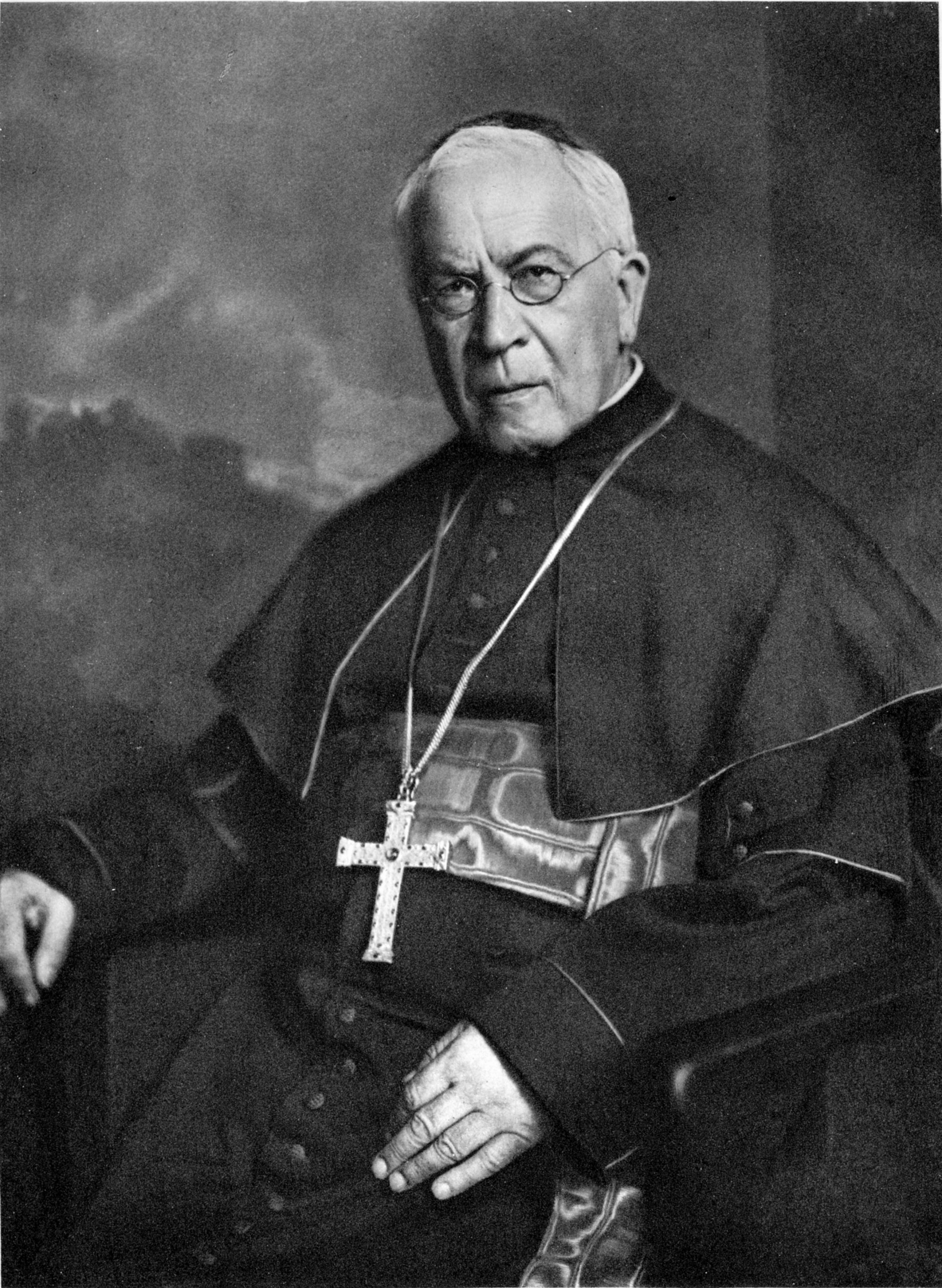 This is a scan of the historical document